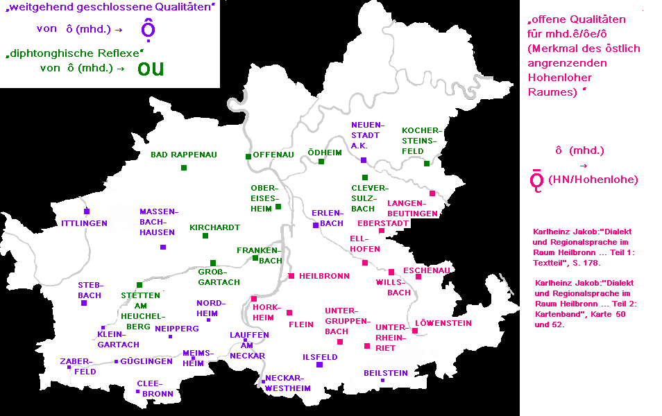 Karlheinz Jakob, Dialekt und Regionalsprache im Raum Heilbronn. Teil 2, Kartenband. Karte 50 . 52 - Orte mit ostfränkischer Prägung - ǭ (HN u. Hohenlohe) als ostfränkische, offene Qualität für ô (mittelhochdeutsch)-, Marburg 1985.PNG